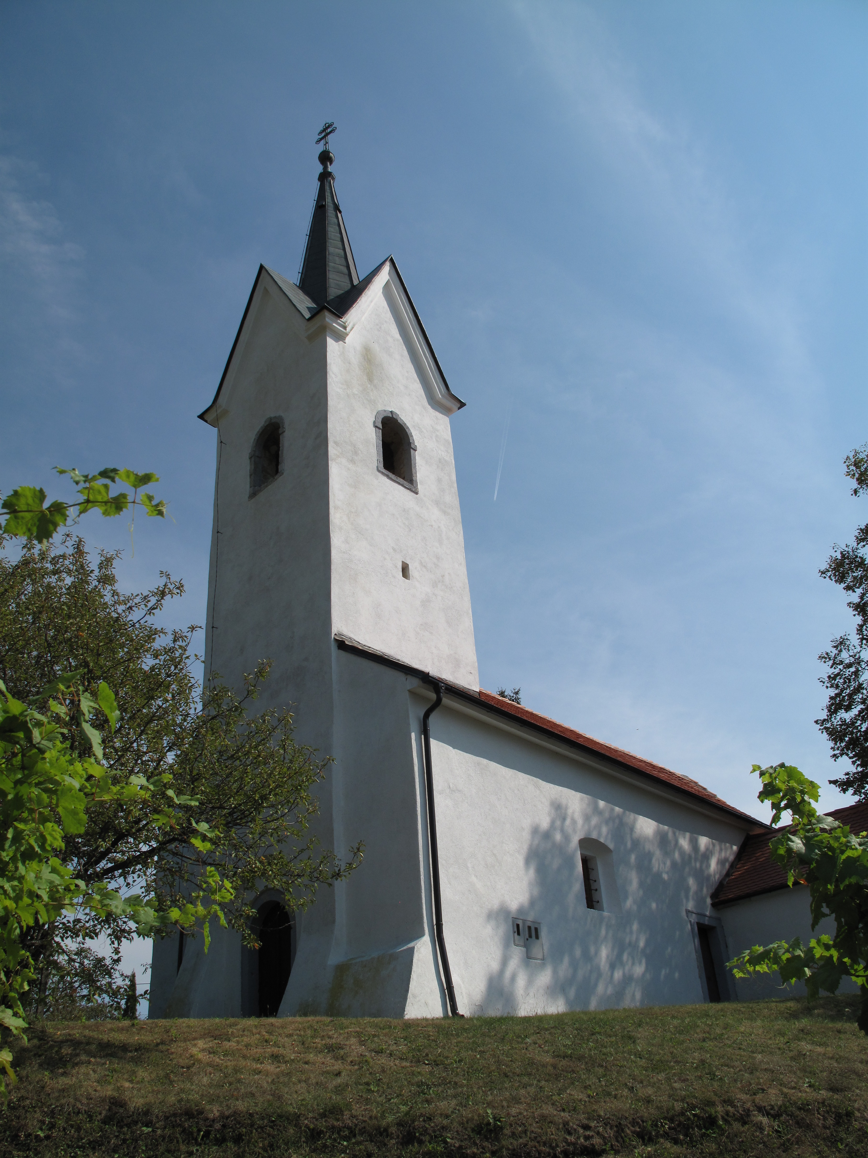 Saint Vitus church, Bizeljsko